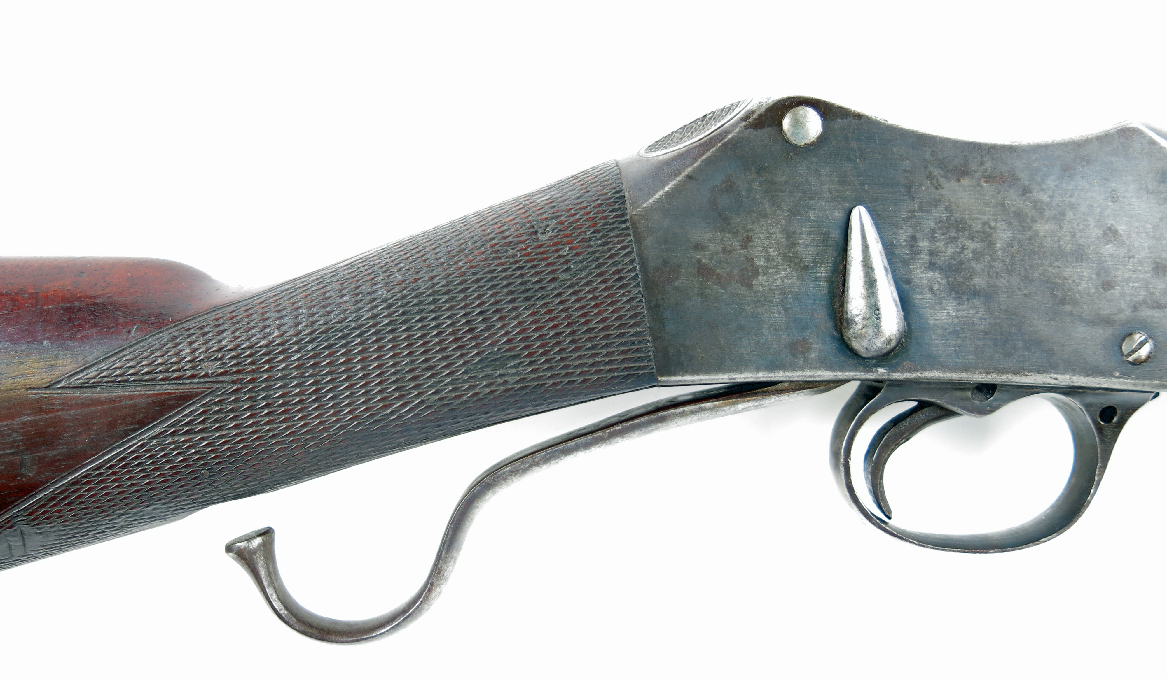 Martini Henry Heavy Cavalry carbine, 1877 Souvenired from Anglo Boer War by donor, Sgt Charles Edward Clews who served with the 2nd Contingent, NZMR. carbine; .450 x 577 inch calibre; lever action; breech loading; metallic cartridge; chequered wooden stock; comes with cleaning rod markings- maker's name- "THOS. BARNSLEY and CO PRETORIA" London proof marks on barrel and action sold out of service marks owner's name on wood- Corp Clews